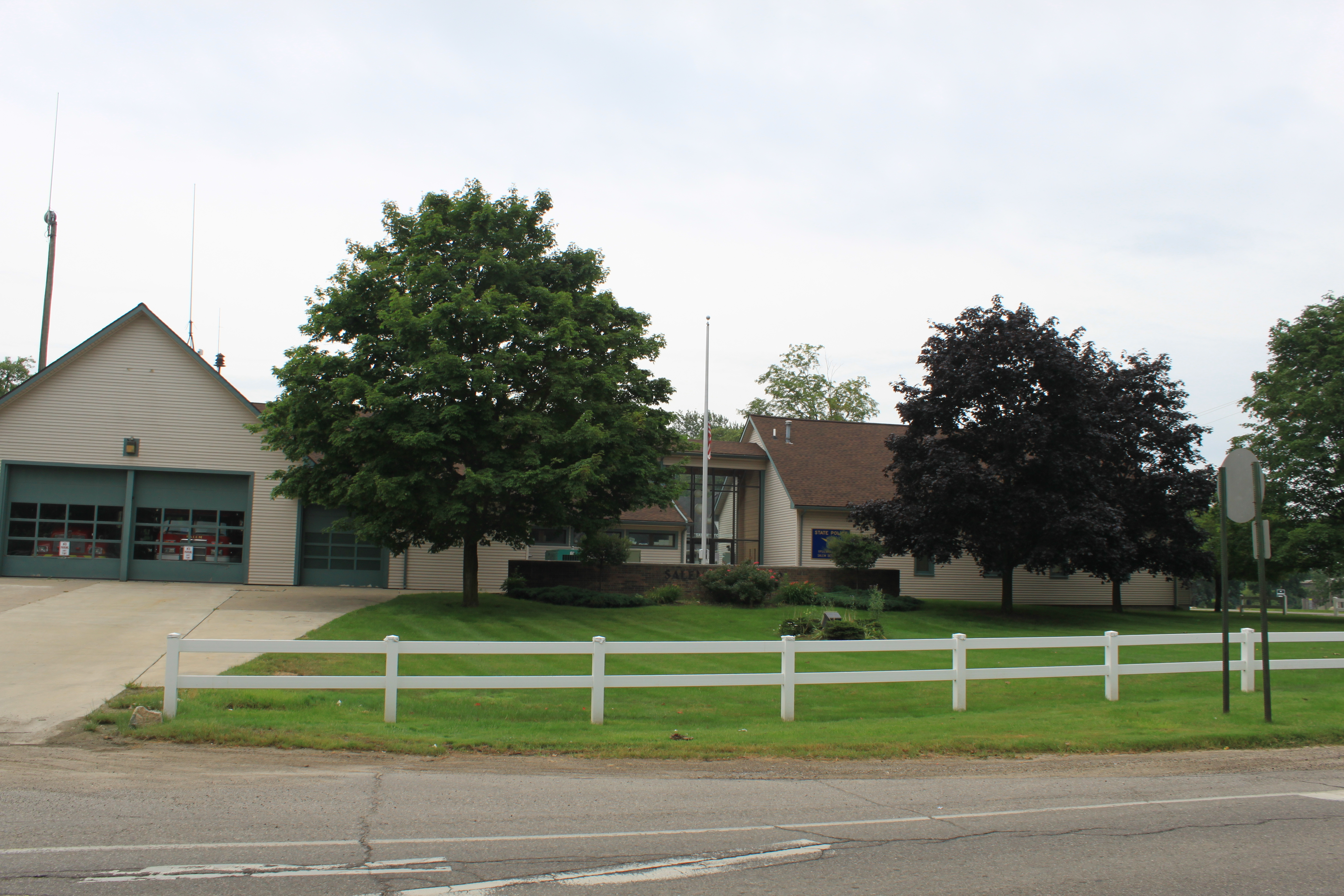 Salem Township Hall, Michigan, 9600 Six Mile Rd